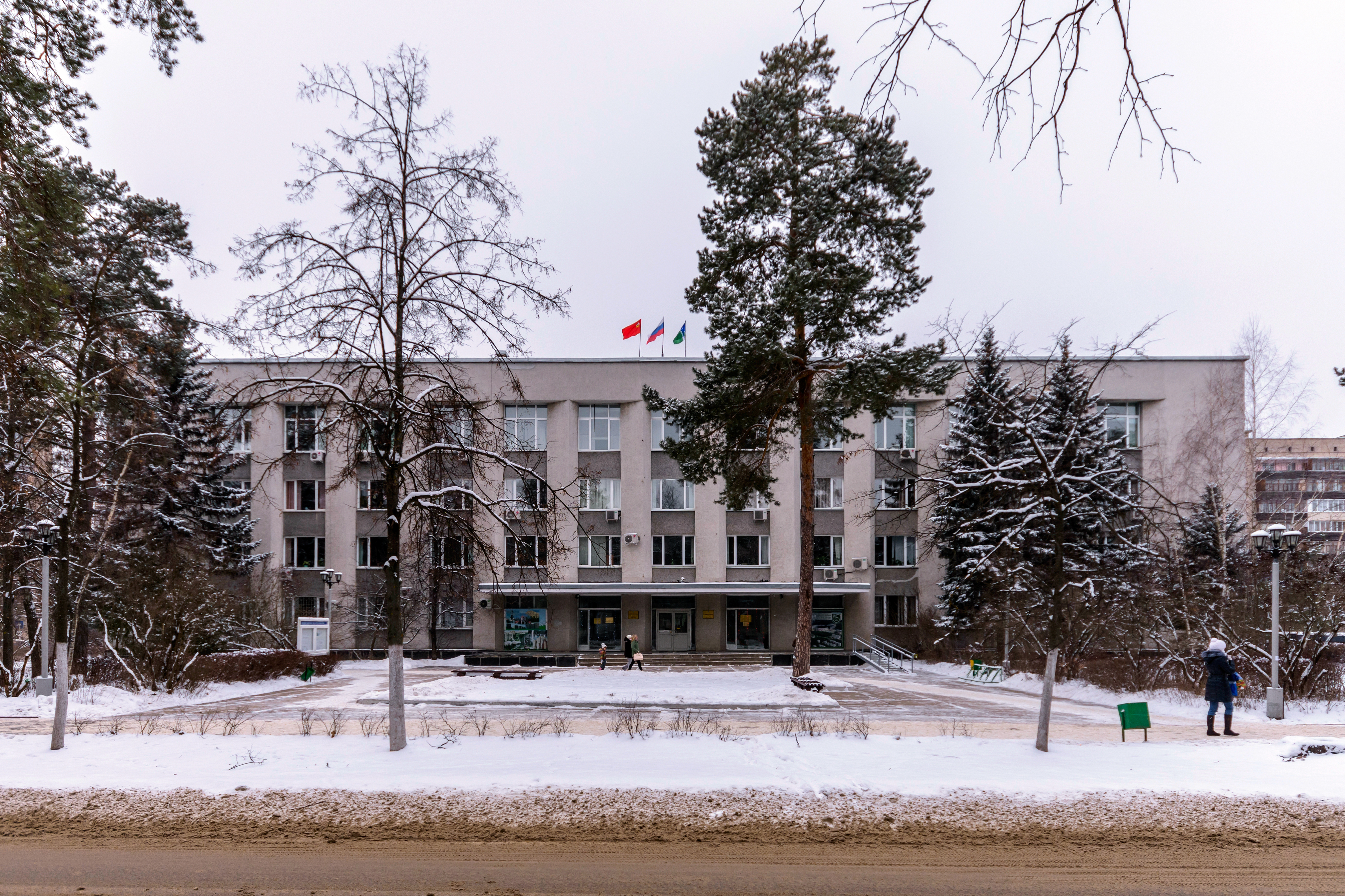 Administration of Protvino town of Moscow Oblast, Russia